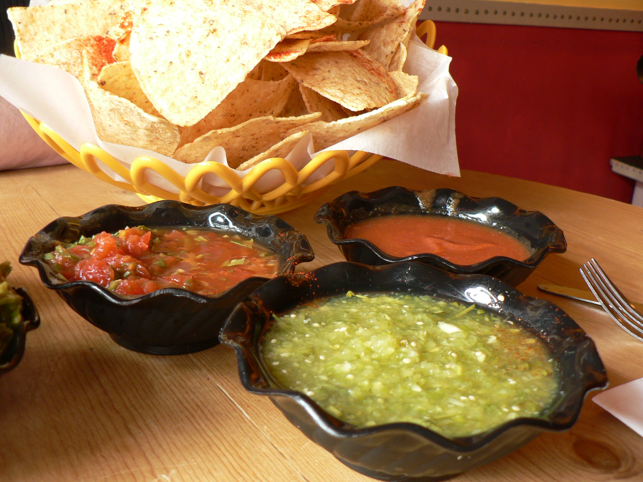 Chips and salsa